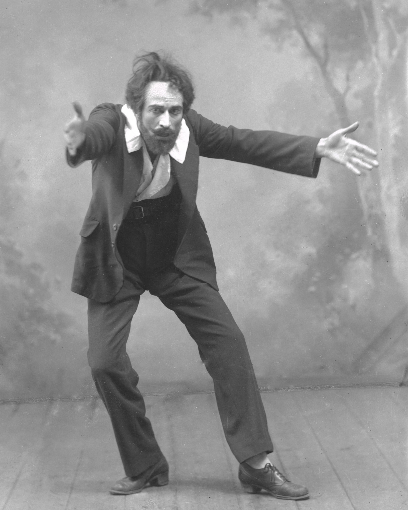 Kazım Ziya as Arif ("Devil" of Huseyn Javid). Azerbaijan State Dram Theatre. Director is Abbas Mirza Sharifzade.